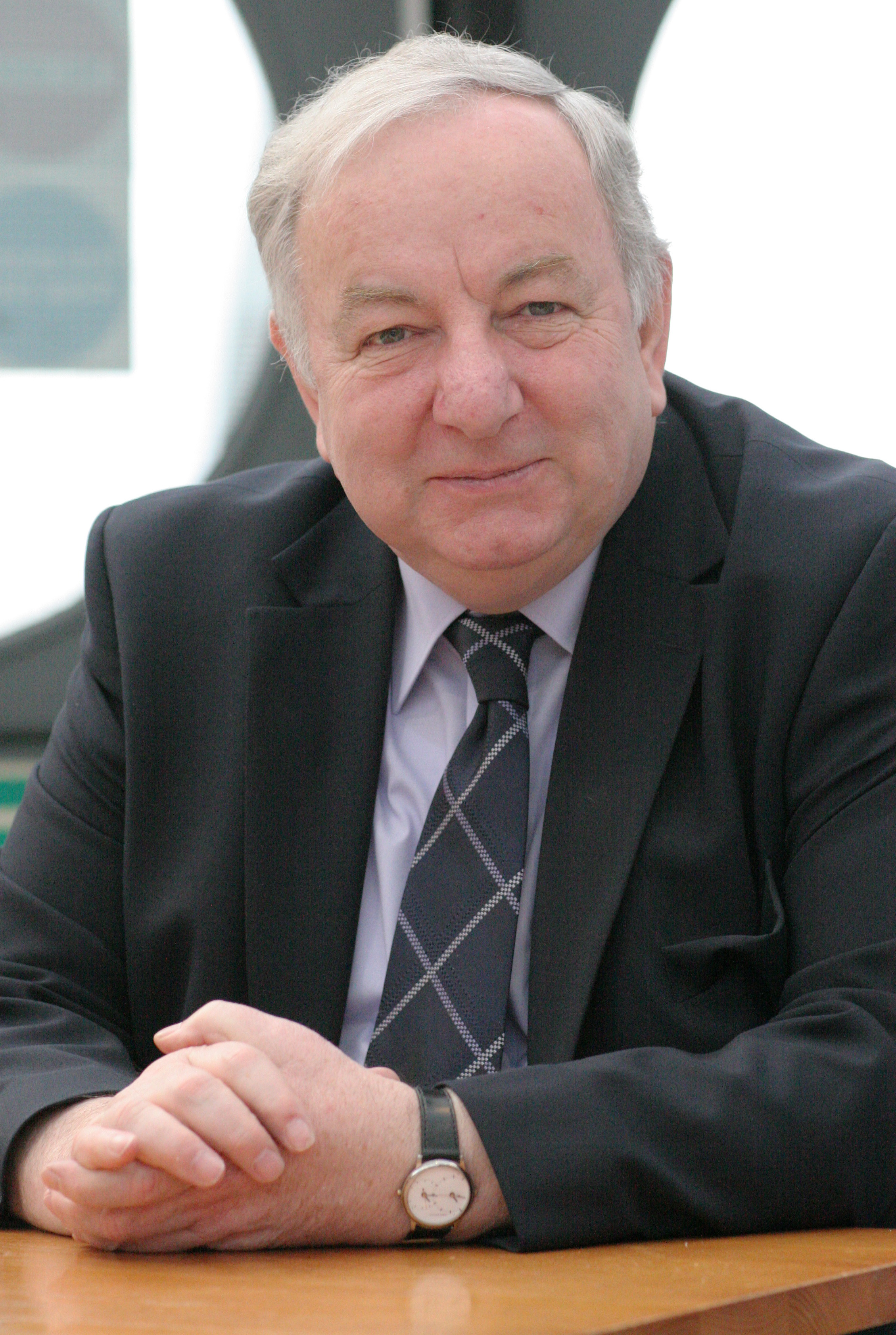 British Labour and Co-operative life peer Lord Foulkes (George Foulkes, Baron Foulkes of Cumnock; born 21 January 1942) in Glasgow, Scotland, UK.